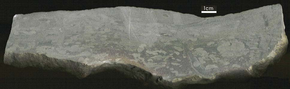 Section of hand sample of dolomitic siltstone showing bioturbation. From I-71, exit 28, Kentucky. Probably Upper Ordovician Saluda Dolomite.